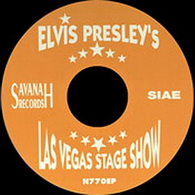 CD of Elvis Presley’s bootleg – Las Vegas Stage Show (1996)